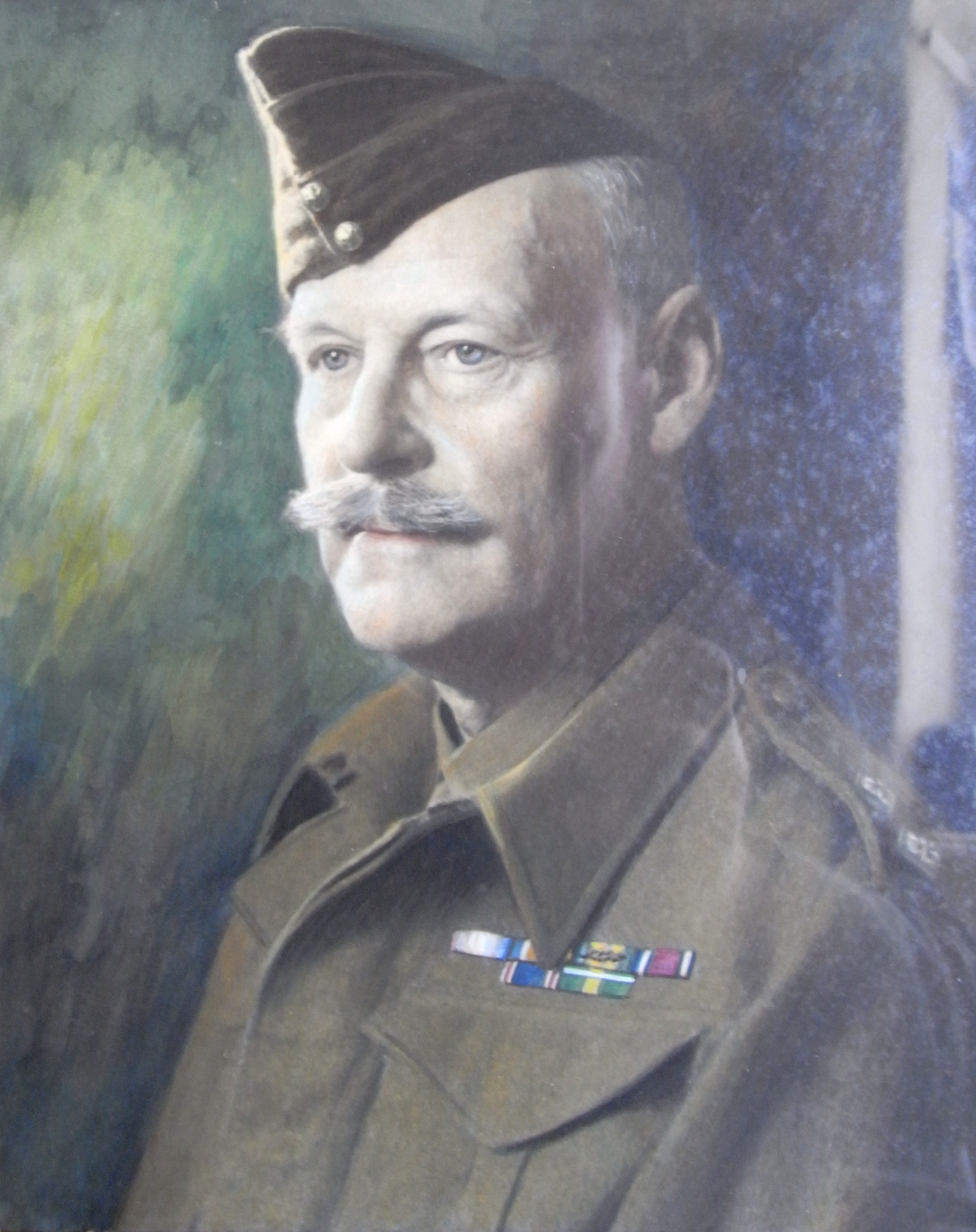 Col. Eustace James Harrison (1876-1962) TD, Hon. Colonel 6th (Rifle) Battalion, King's Regiment (Liverpool), of Combe House, Dulverton, Somerset, lord of the manor of Hawkridge in Somerset, who served in World War I. (Source: Burke's Genealogical and Heraldic History of the Landed Gentry, 15th Edition, ed. Pirie-Gordon, H., London, 1937, pp.1060-1, Harrison of Combe)